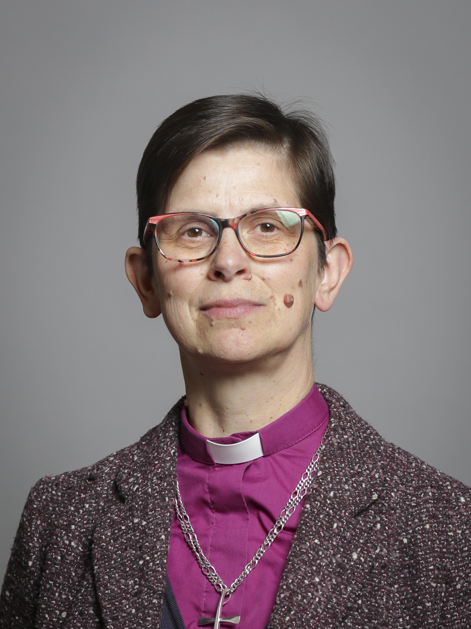 Official portrait of The Lord Bishop of Derby 3×4 portrait of The Lord Bishop of Derby